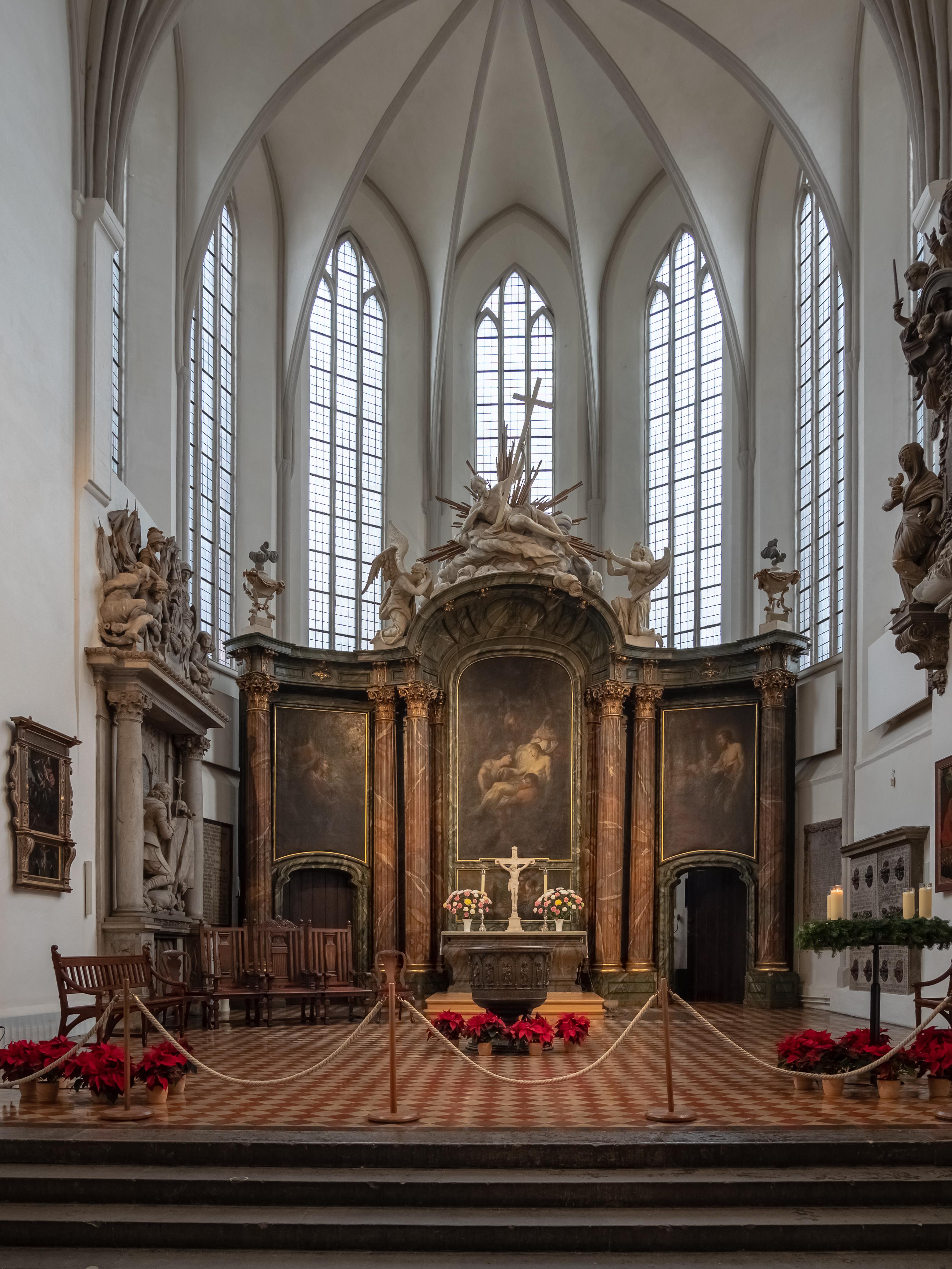 Altar of the Marienkirche in Berlin Mitte